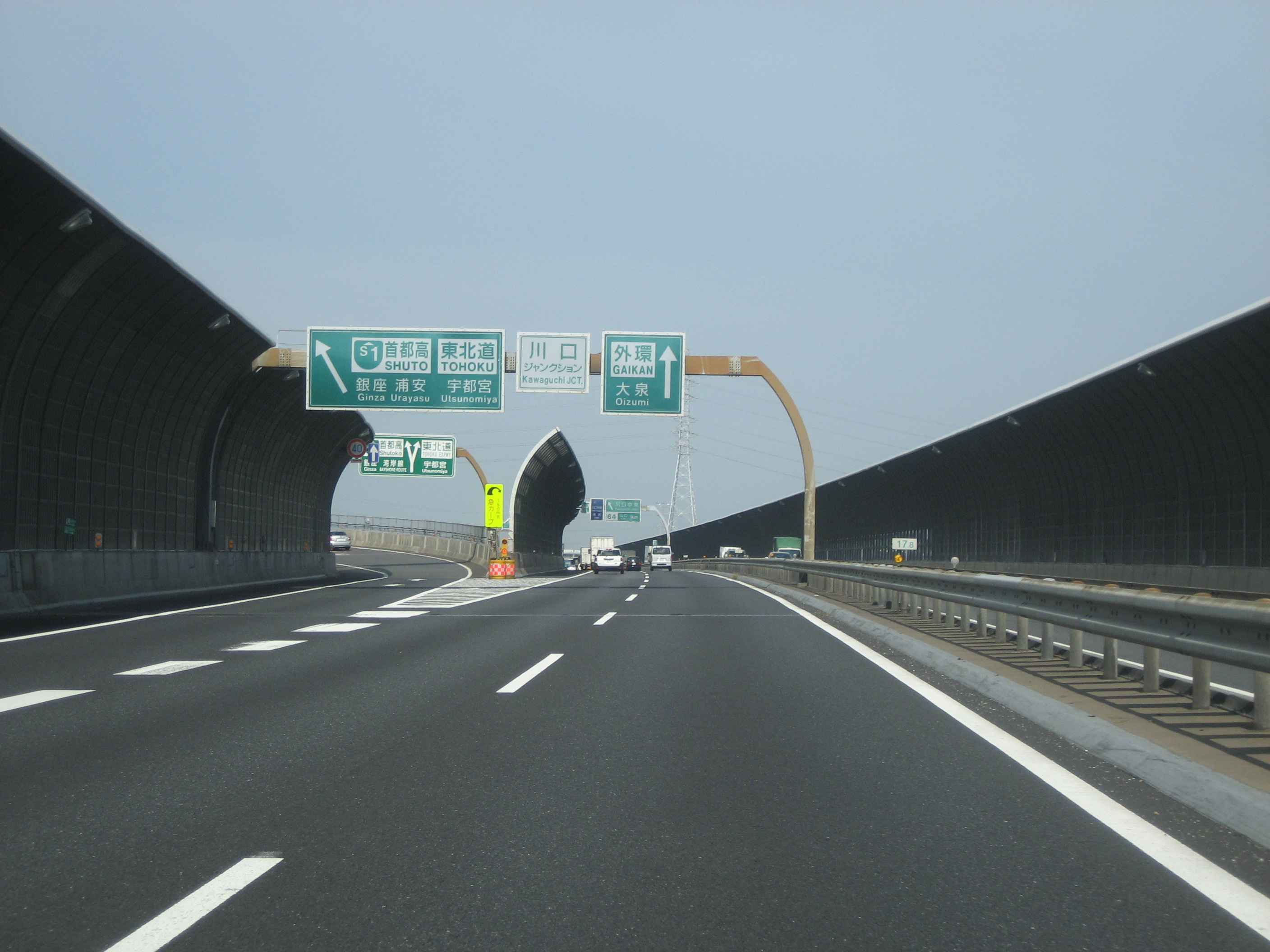 Kawaguchi Junction on the Tokyo Gaikan Expressway westbound line for Oizumi